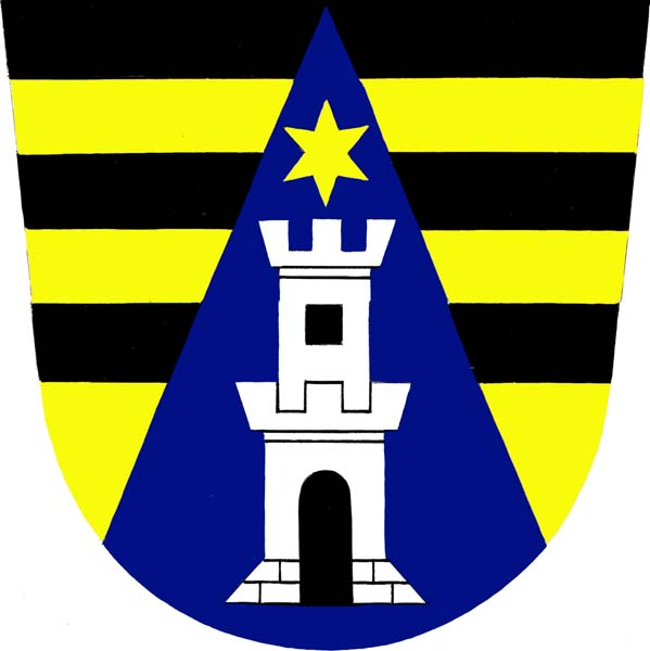 Municipal coat of arms of Drnovice village, Blansko District, Czech Republic.